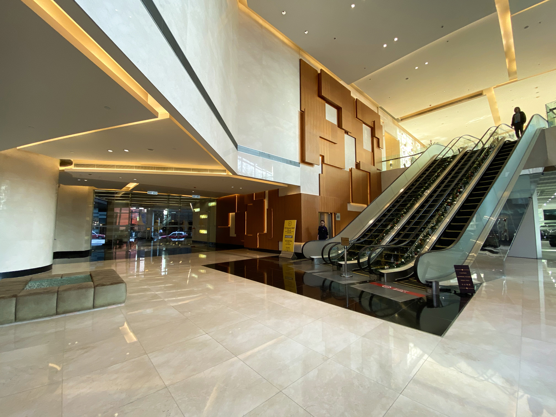 Enterprise Square Five Tower Tower 2 lobby